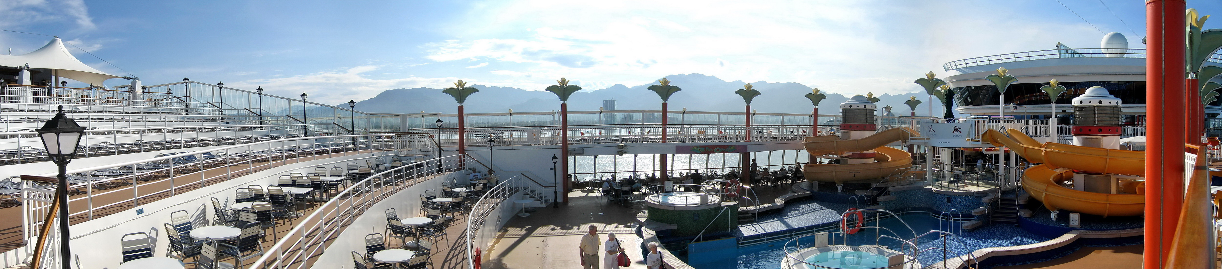 A wide view of the Norwegian Star's pool area. In the background is Puerto Vallarta where the ship was anchored performing tendering operations in October 2006.